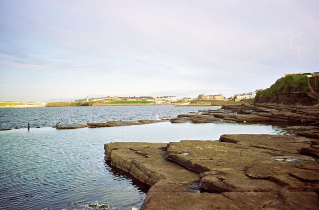 Natural swimming pool to the west of Bundoran With woollen bathing trunks we were invited to sample the Atlantic chill in this now neglected natural facility. When the sun shone the pool was busy and one of my earliest memories of this pool was the team of nuns who came and bathed here fully clothed in the 1950's. They don't make them like that anymore.